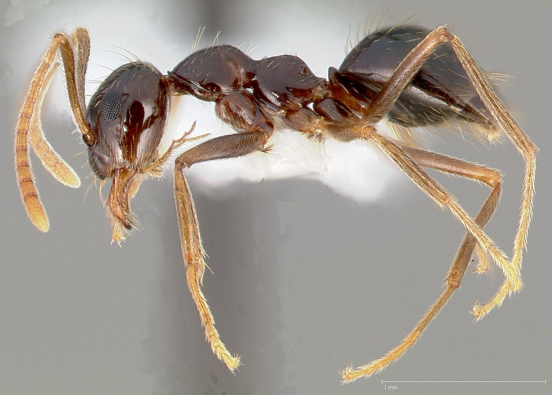 Profile view of ant Prenolepis imparis specimen casent0005429.